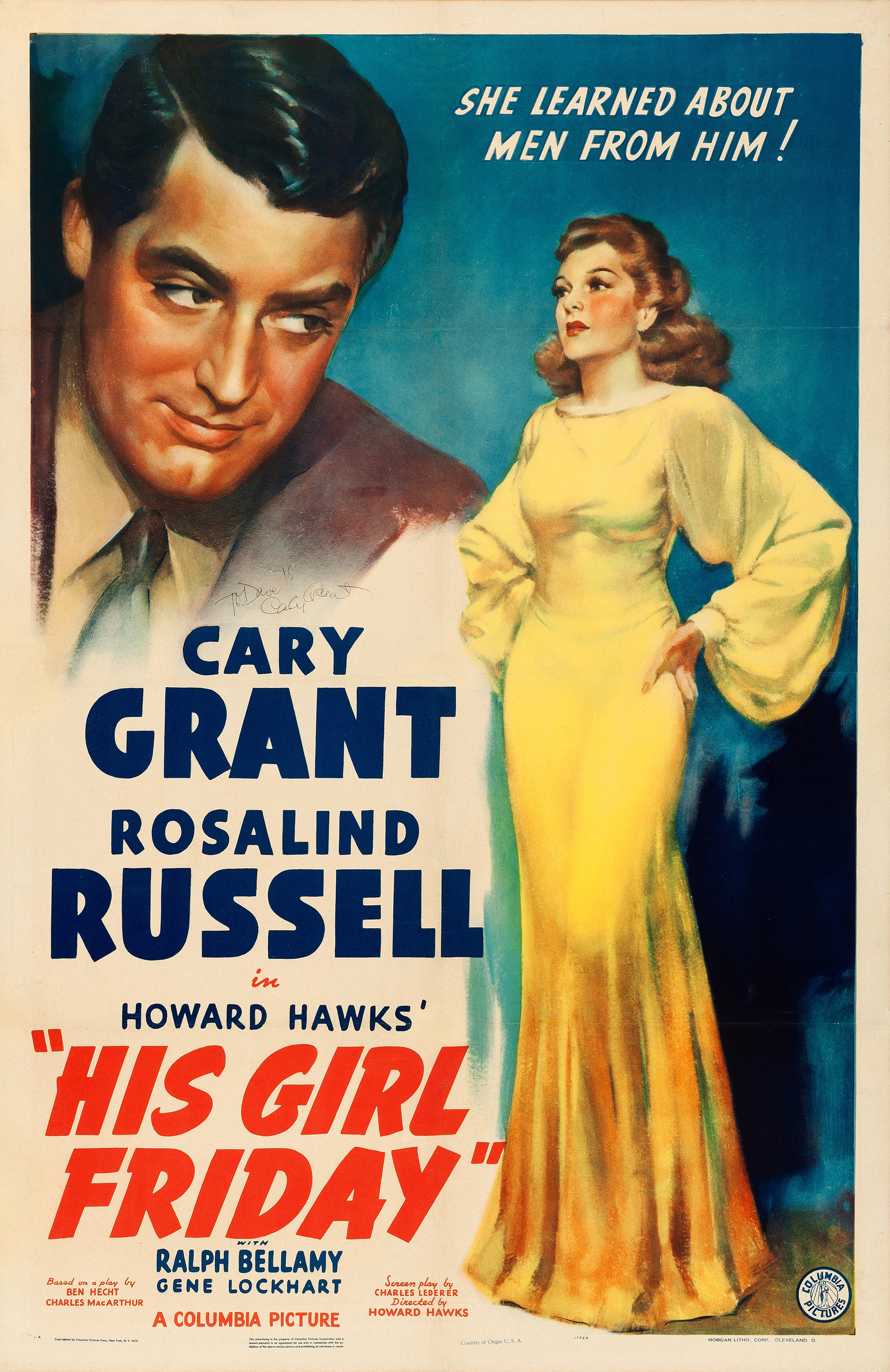 Theatrical poster for the American release of the 1940 film His Girl Friday.